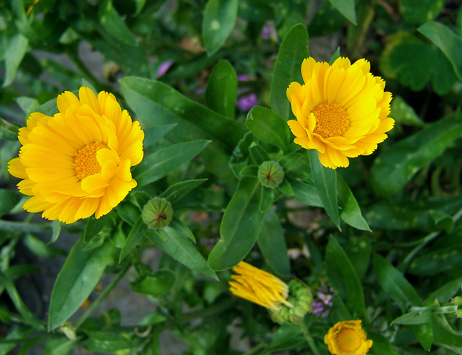 Marigold